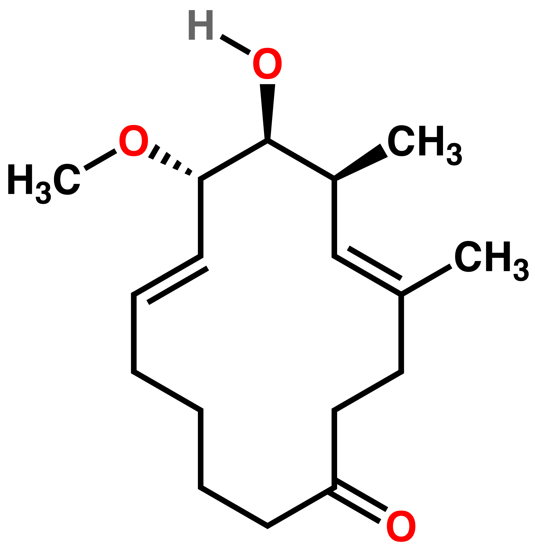 2D chemical structure of macroketone